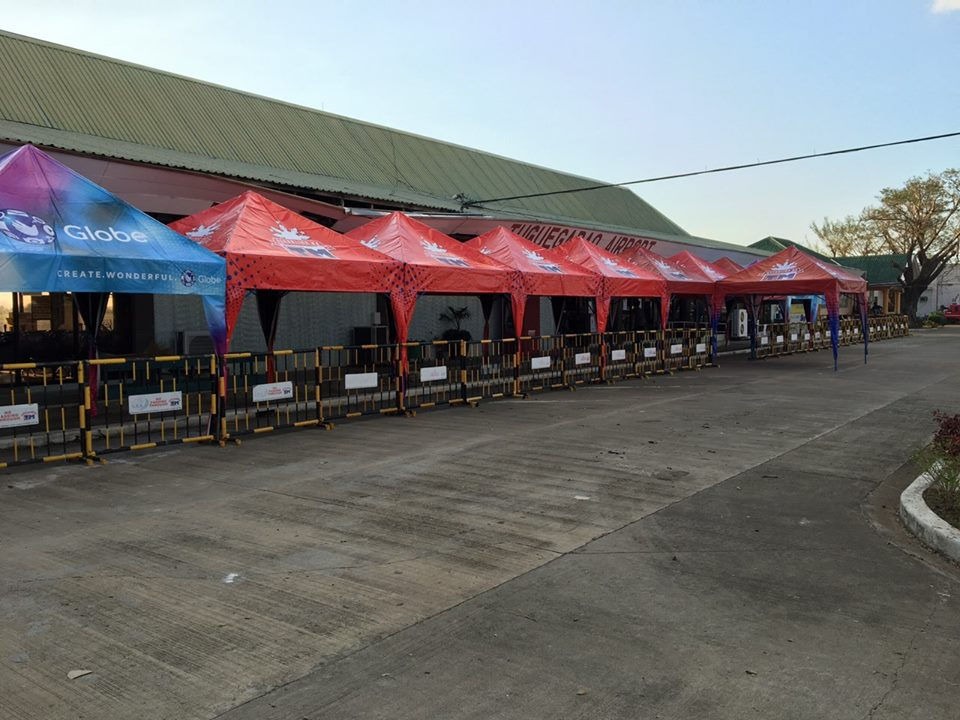 Exterior of Tuguegarao Airport in Tuguegarao, Cagayan in the Philippines a few days after Typhoon Mangkhut (Ompong) struck the Philippines. Tagalog: Labas ng Paliparan ng Tuguegarao sa Tuguegarao, Cagayan sa Pilipinas ilang araw makatapos tumama ang Bagyong Ompong (Mangkhut) sa Pilipinas.